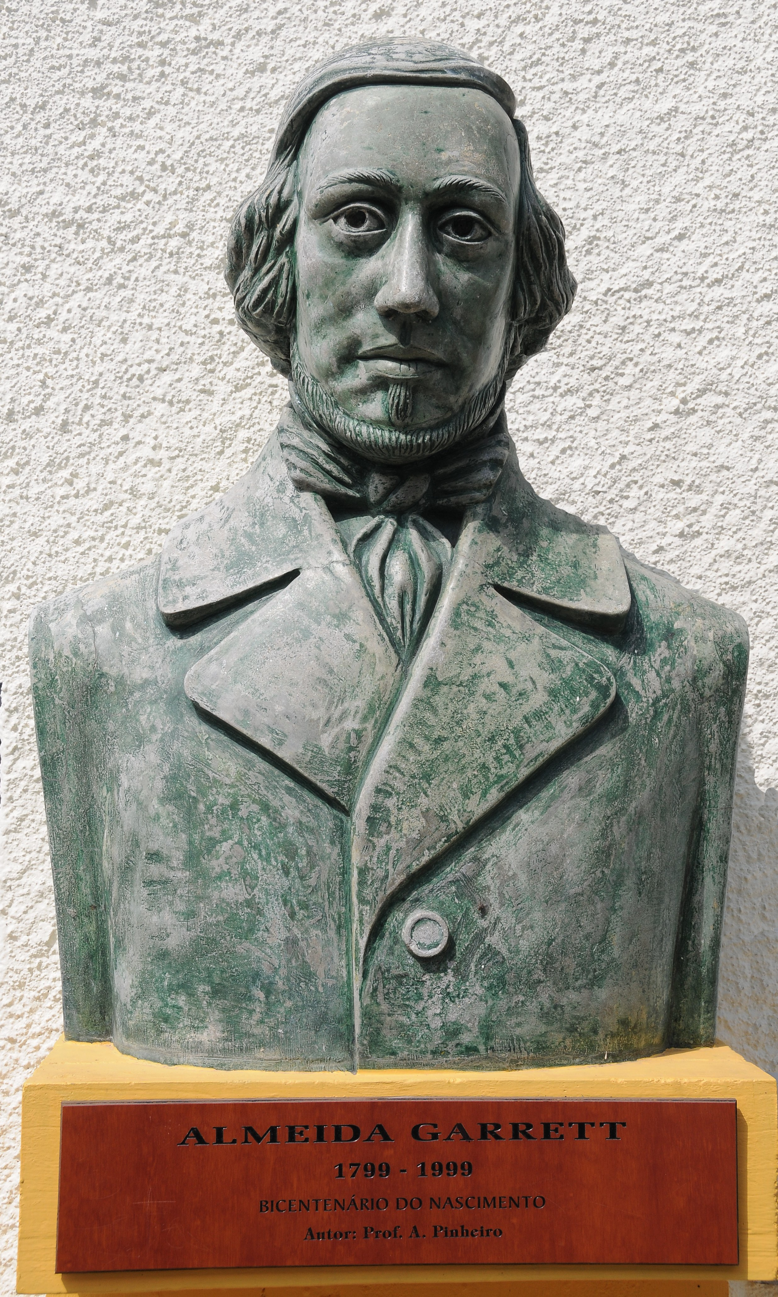 Bust of Almeida Garrett, in Escola de Palmeira, Braga, Portugal.